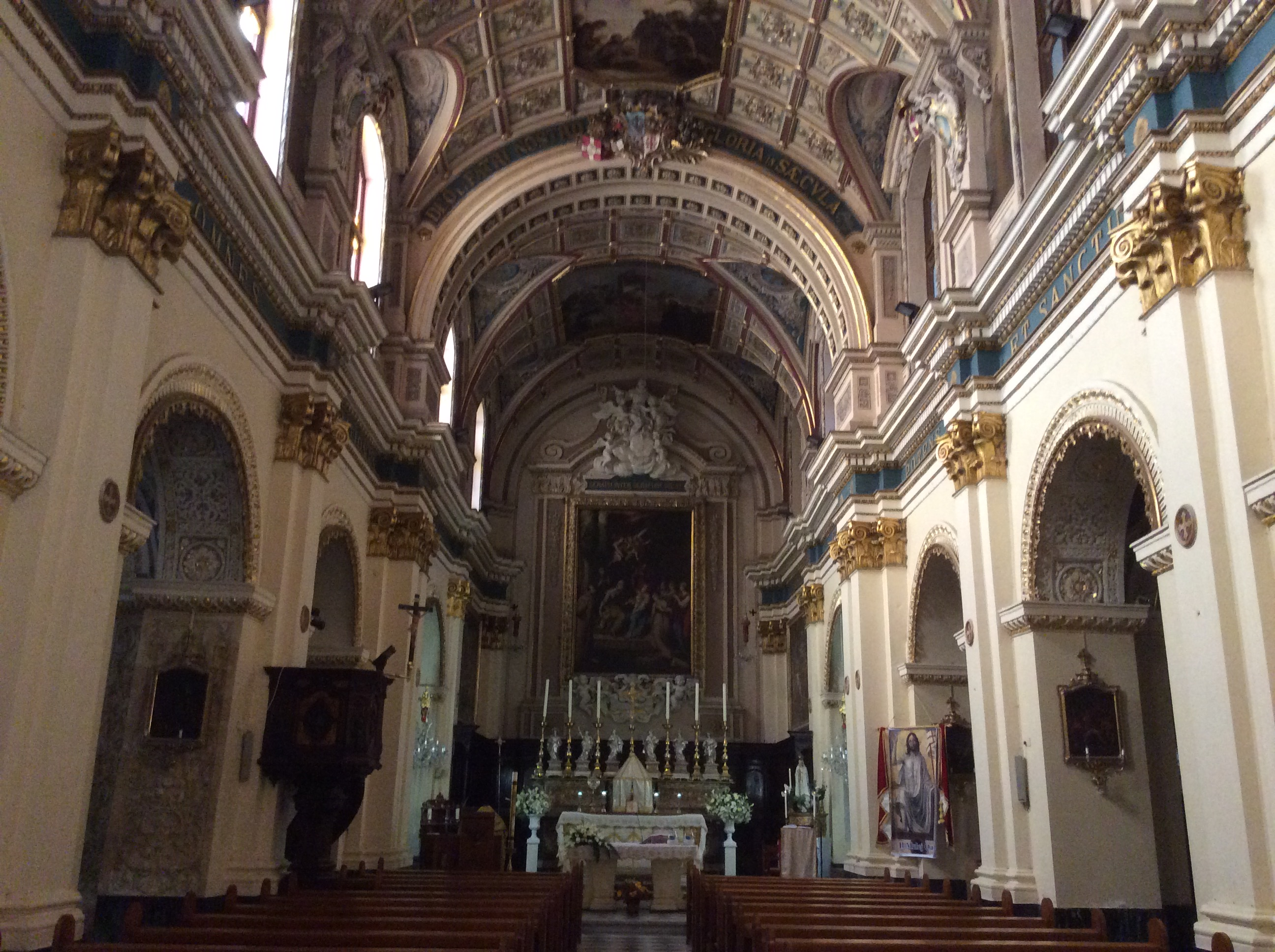 Ta Giezu Church